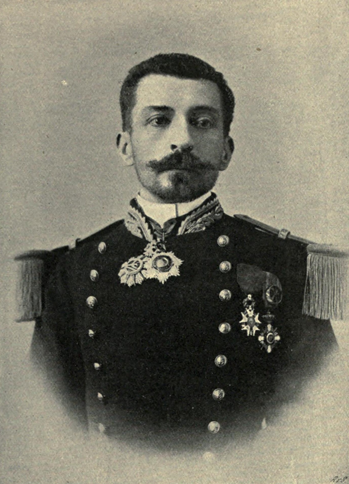 Portrait of Pierre Loti